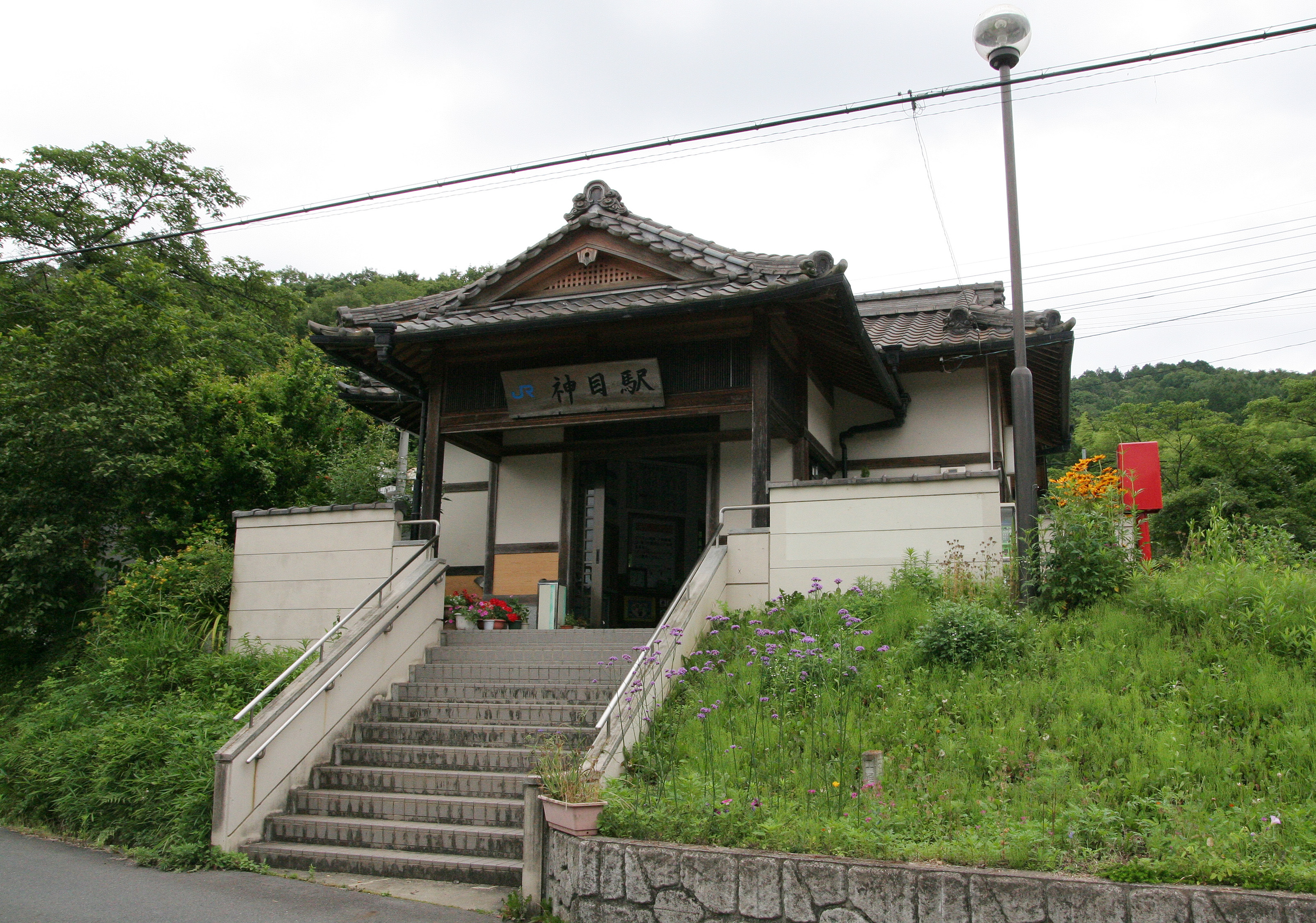 West Japan Railway Company Tsuyama Line koume sta